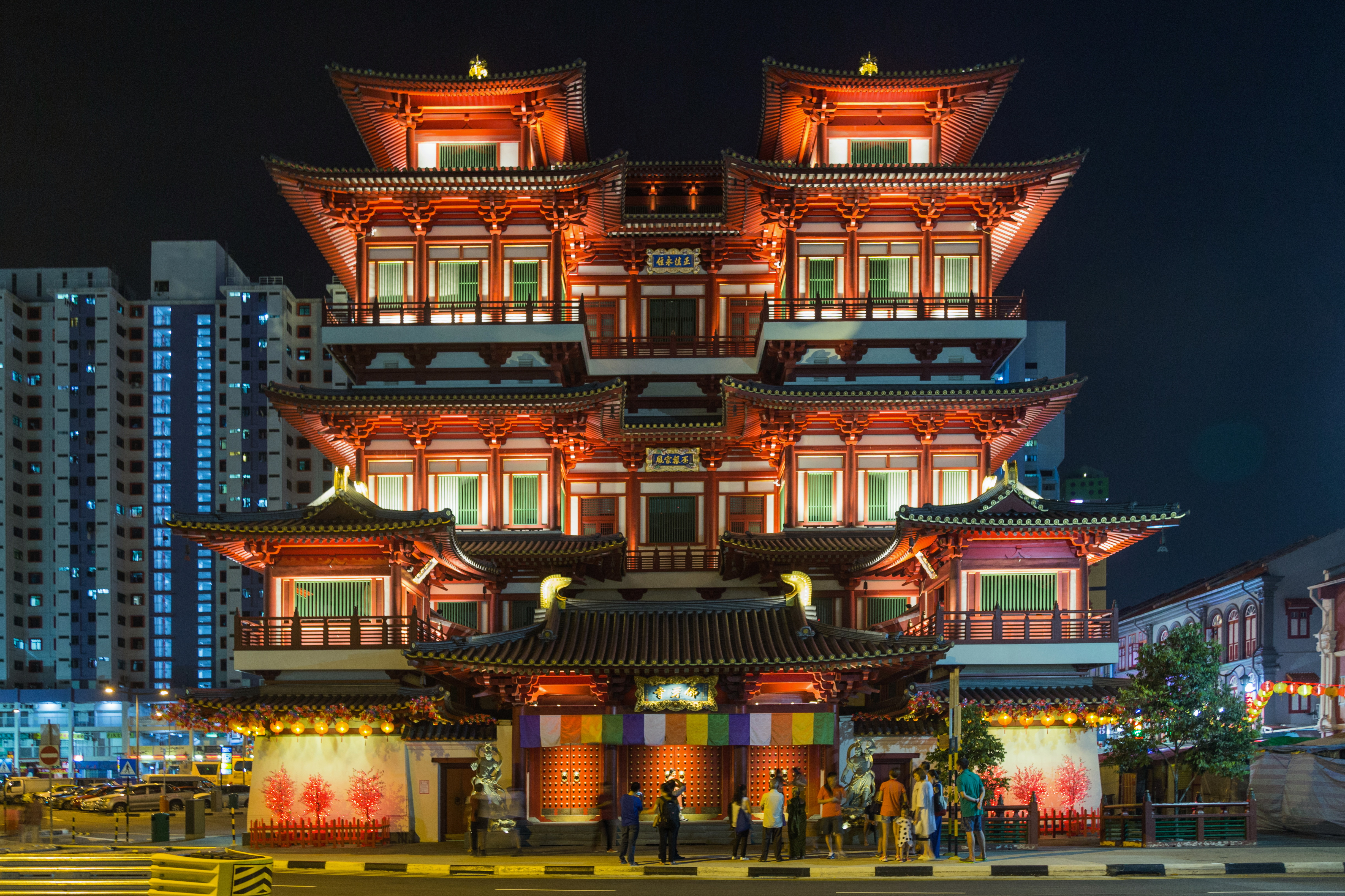 Buddha Tooth Relic Temple and Museum. Chinatown, Central Region, Singapore.